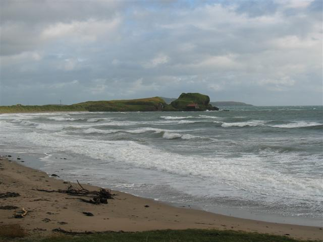 Southend: Dunaverty Bay